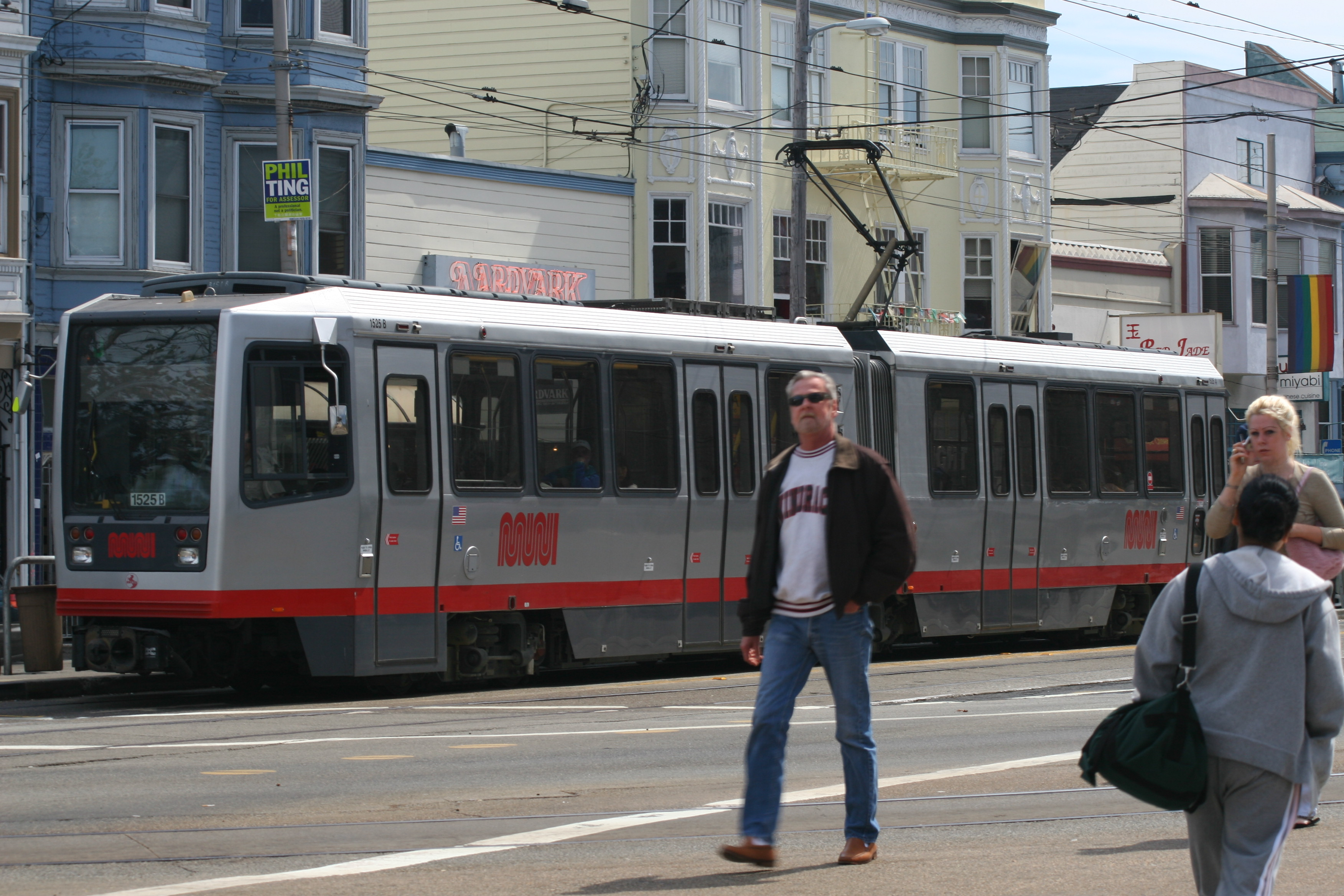 Inbound J Church train at Church/Market in 2005